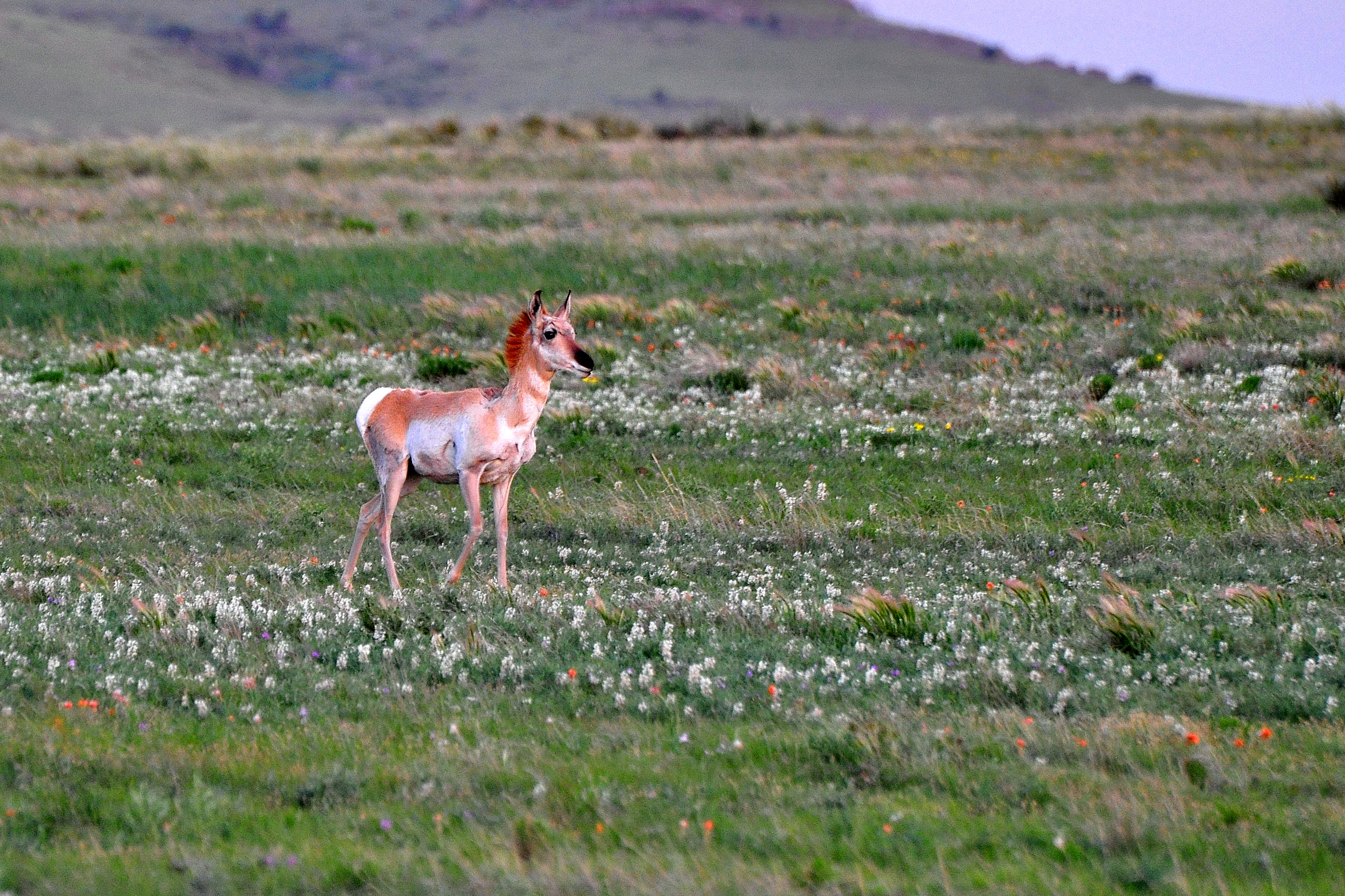 Pronghorn (Antilocapra americana) fawn (i.e., juvenile) Locality: Clayton, NM